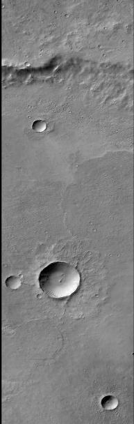 Bouguor Crater as seen by CTX.